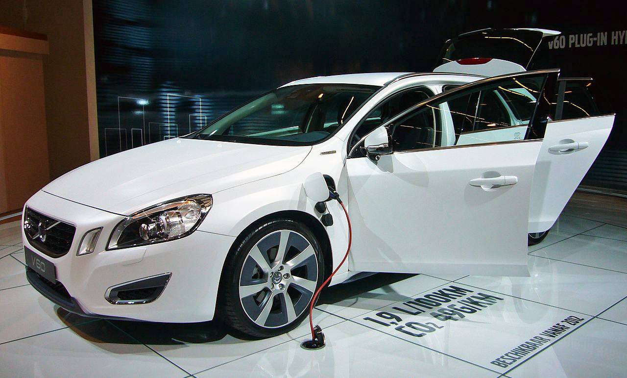 Volvo V60 Plug-in Hybrid at AutoRAI Amsterdam 2011